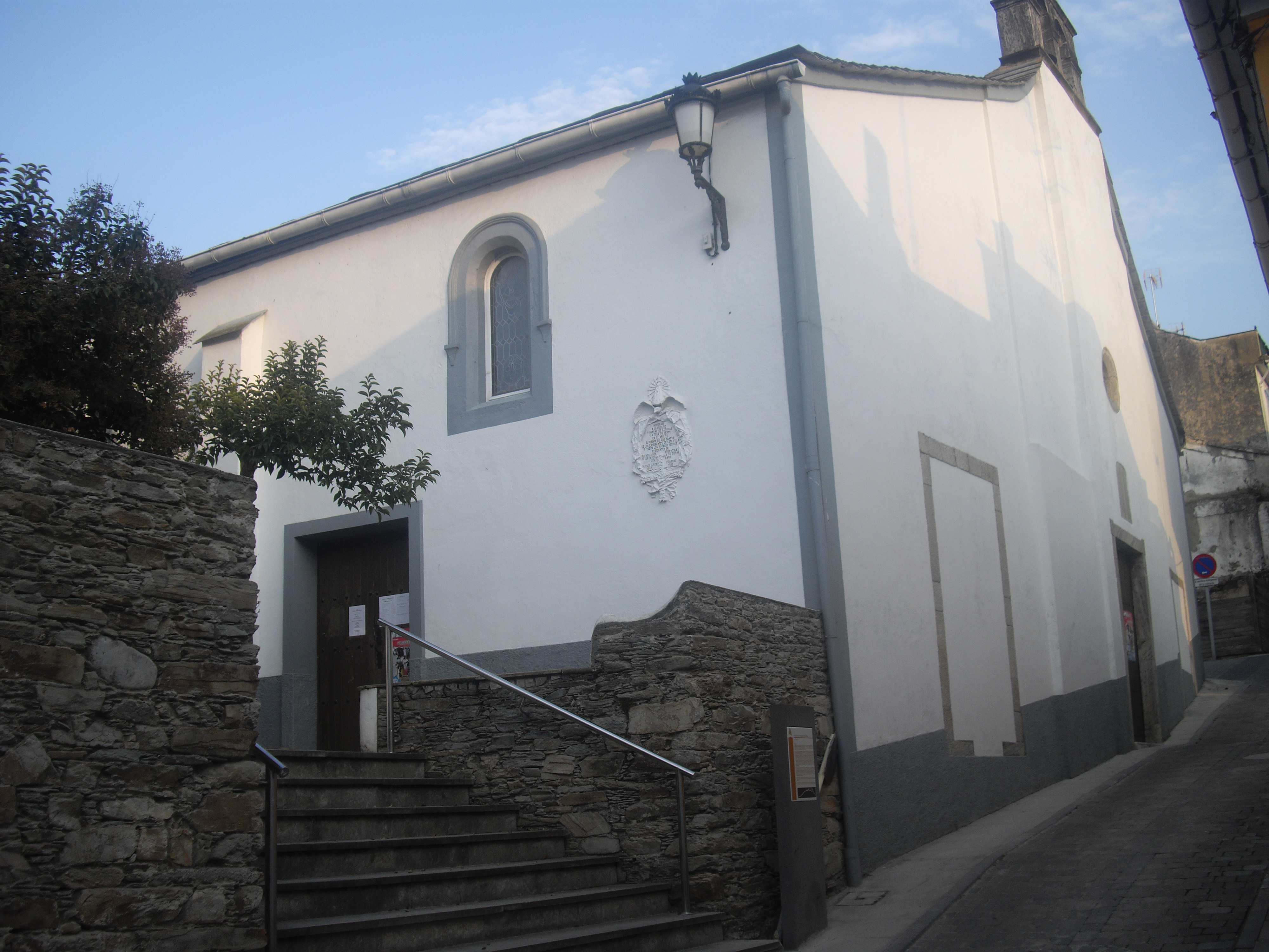 Parish Church of Figueras/As Figueiras (Asturias-Spain)